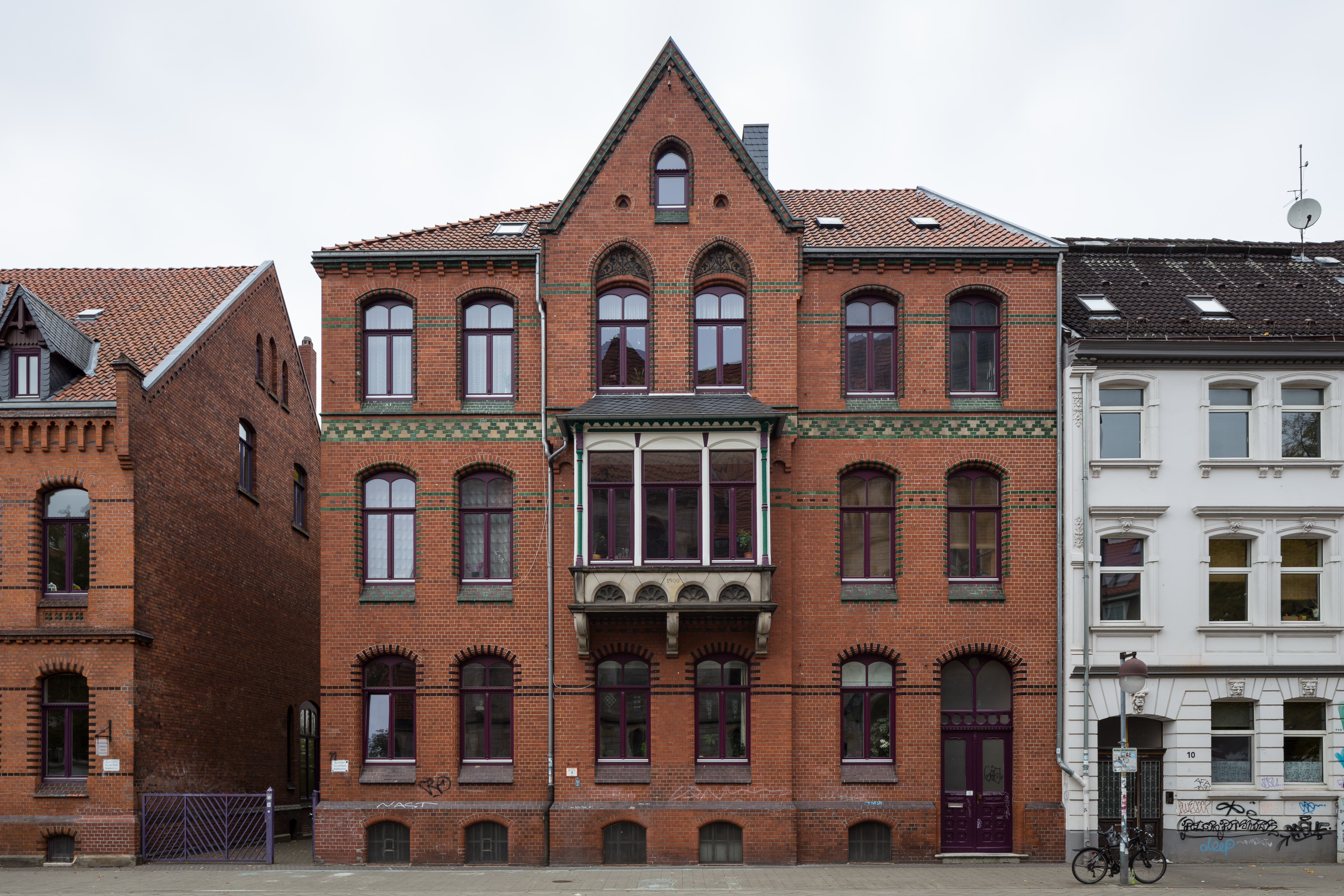 House located at An der Lutherkirche no. 11 in Nordstadt quarter of Hannover, Germany.